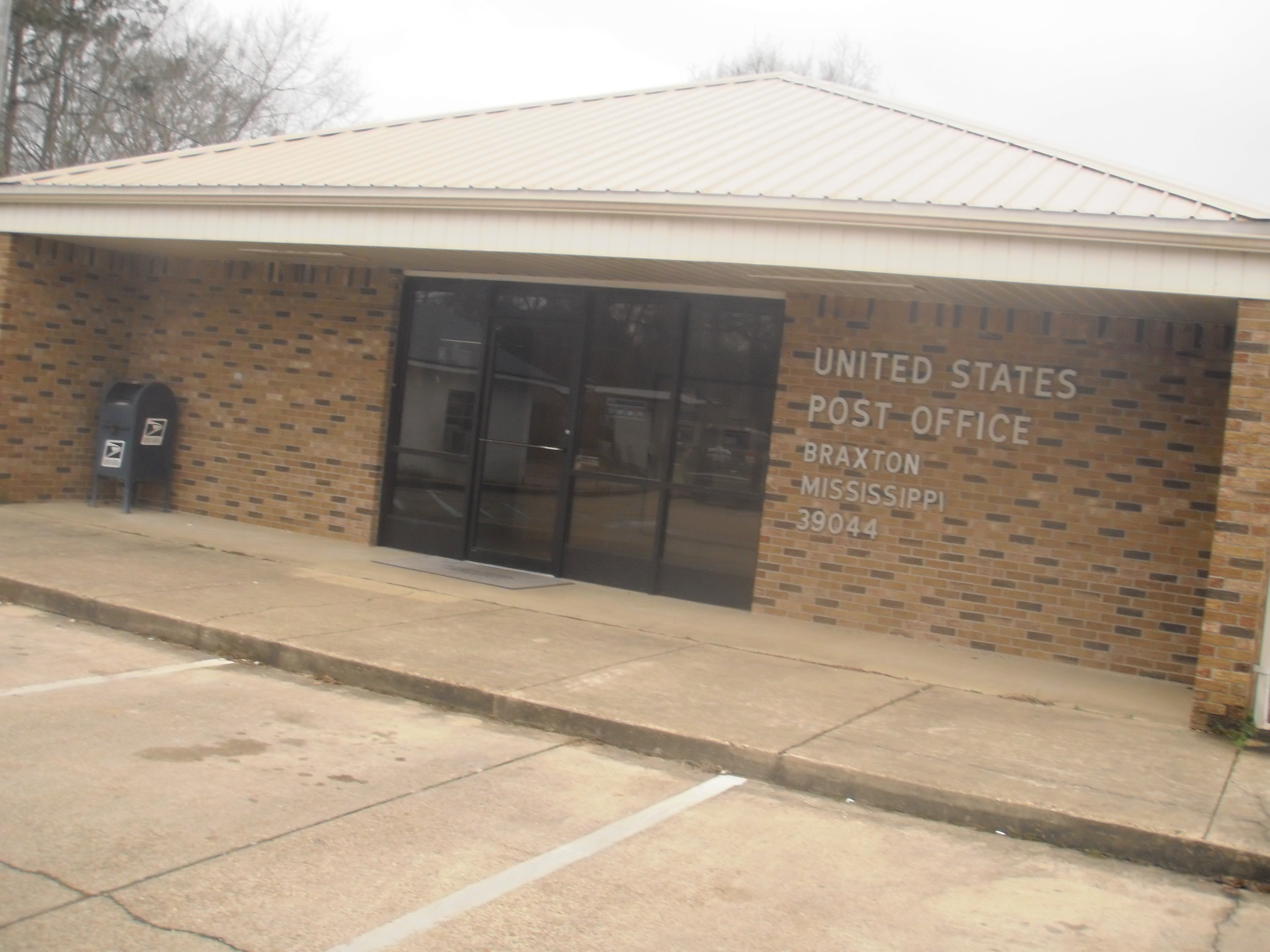 The Braxton Post Office